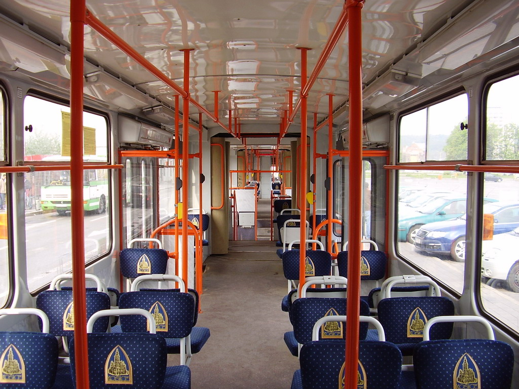 Interior of KT8D5R.N2 tram. by Sheep221